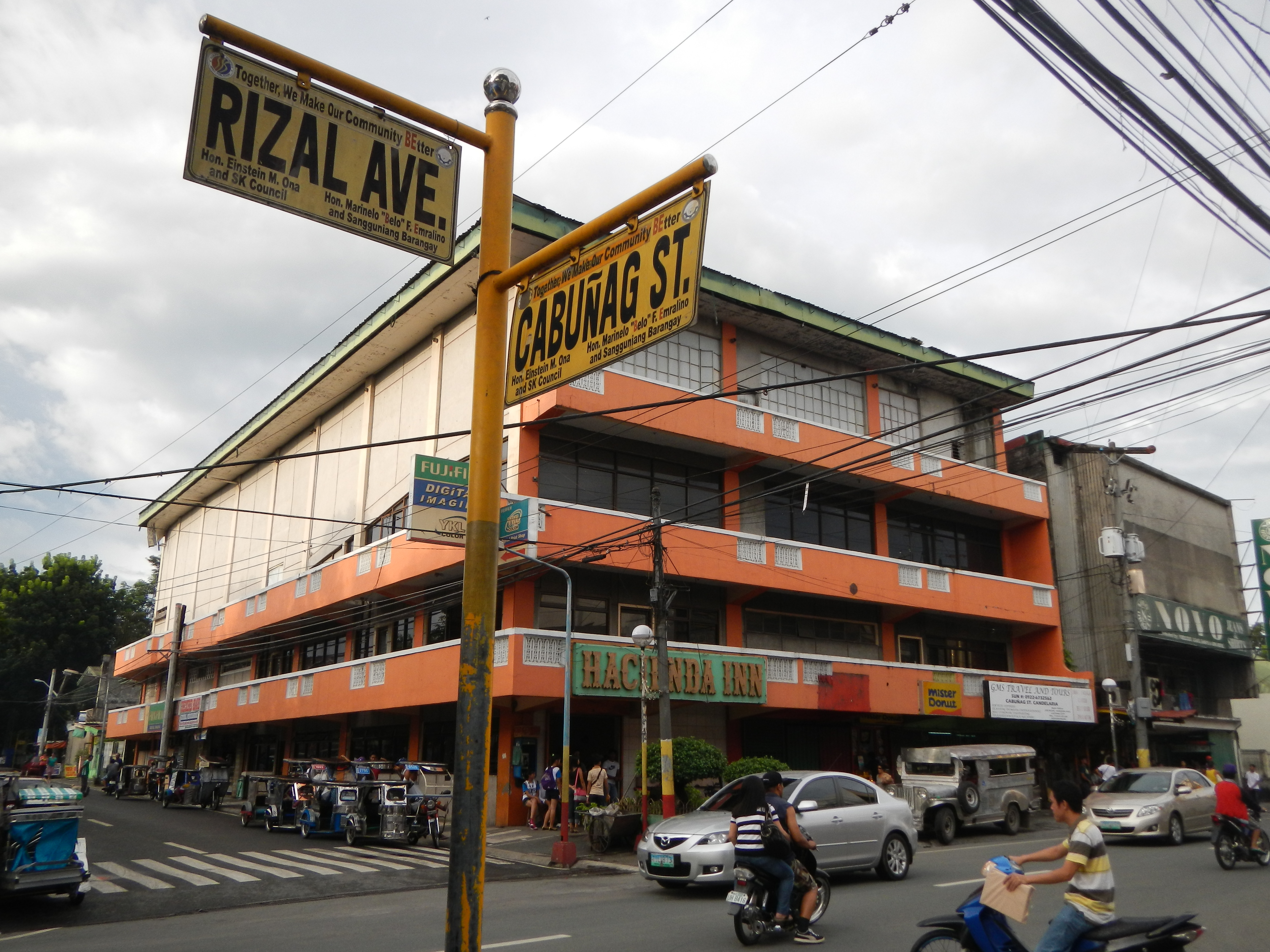 UploadWizard photos of the Rizal Avenue, Poblacion - Sangguniang Bayan Session Hall, Municipal Offices, Andres Bonifacio Monument, Police Station, busy commercial center - Jollibee, Hacienda Inn, downtown, the stores surrounding the Municipal building and the landmark Church, Carabao Monument, the Monument and Memorial of World War II Heroes of Candelaria, the Narra tree planted by President M. L. Quezon, the Town hall of - Candelaria, Quezon [1] The Municipality of Candelaria (Filipino: Bayan ng Candelaria) is a first class municipality in the province of Quezon, [2] Philippines; (2010 census, it) has a population of 110,570, it has a total area of 175 km².